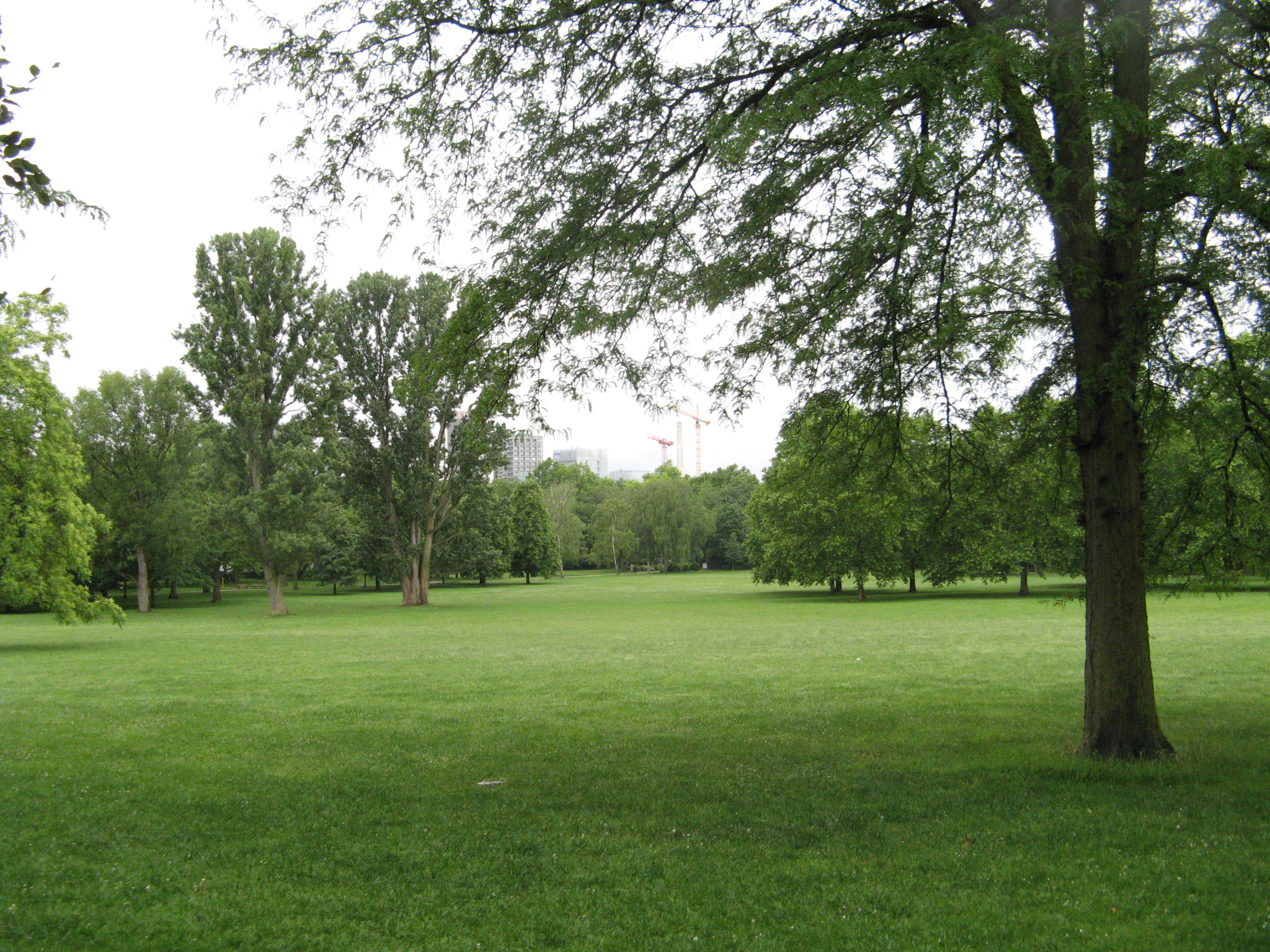 Meadows in the Grüneburgpark.